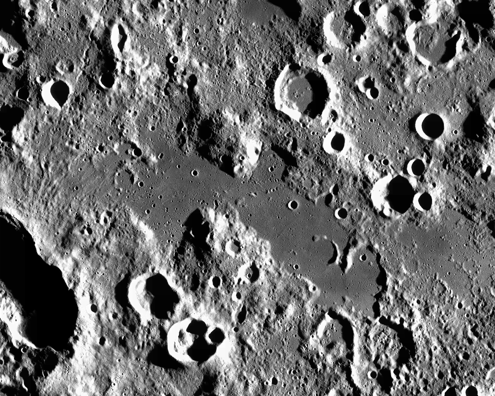 Lacus Timoris on the Moon. Mosaic of photos by Lunar Reconnaissance Orbiter, made with Wide Angle Camera. Size of the image is 250×200 km, north is up.